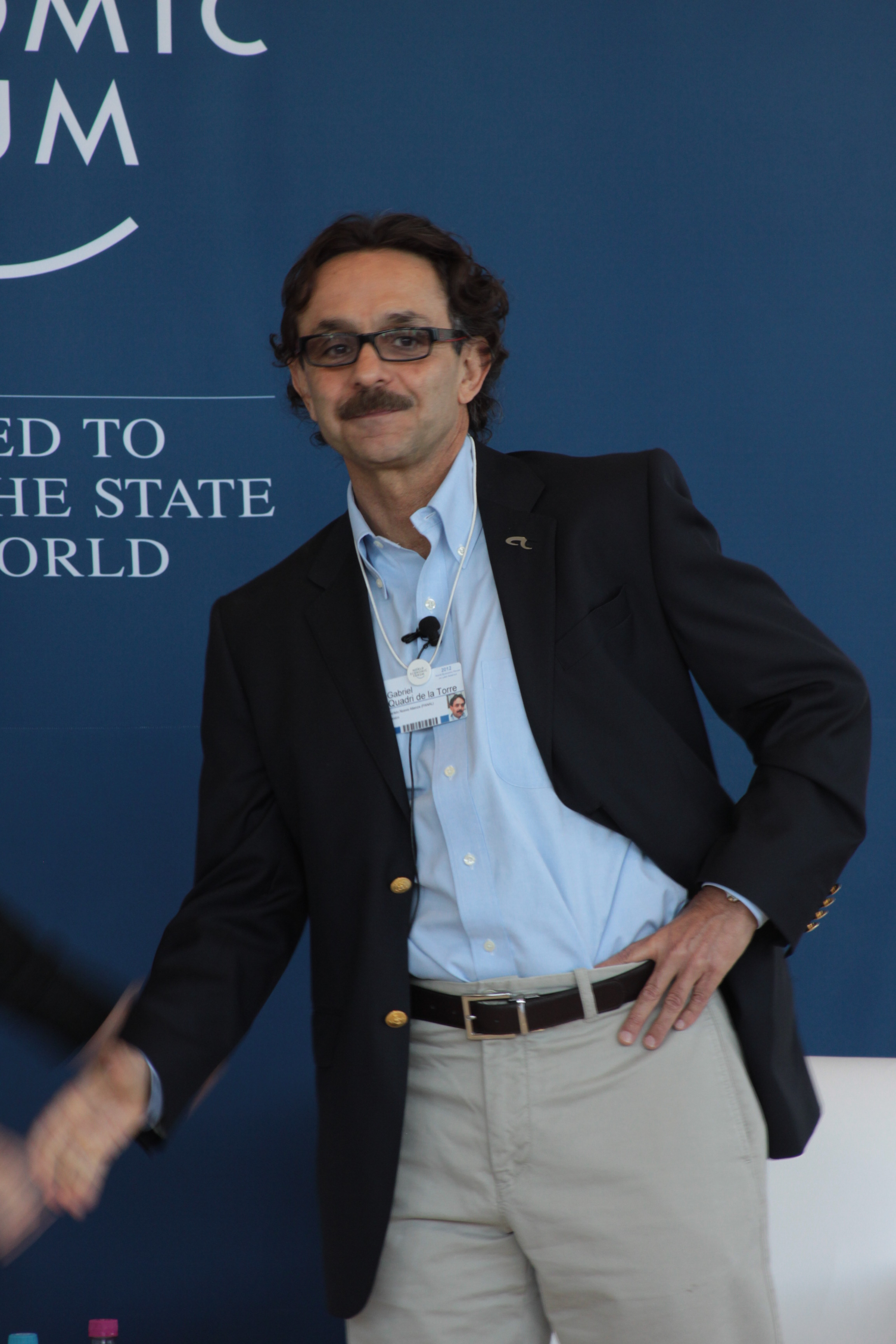 Gabriel Quadri de la Torre, Mexico's Presidential candidate (PANAL) for Mexico captured during an interview at the World Economic Forum on Latin America. Copyright World Economic Forum ( by Josef Kandoll Wepplo